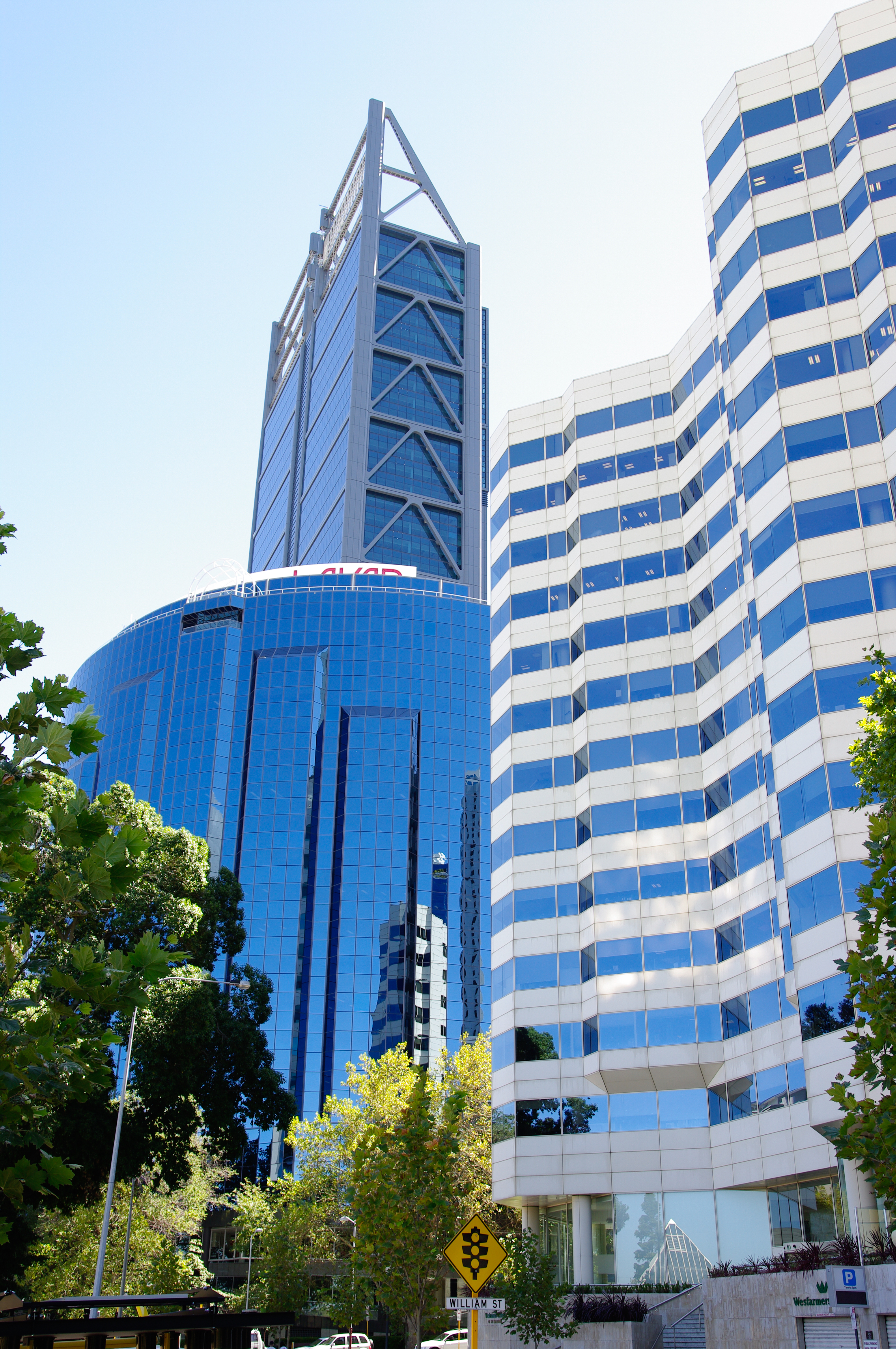 Wesfarmers building, The Quadrant and BHP building